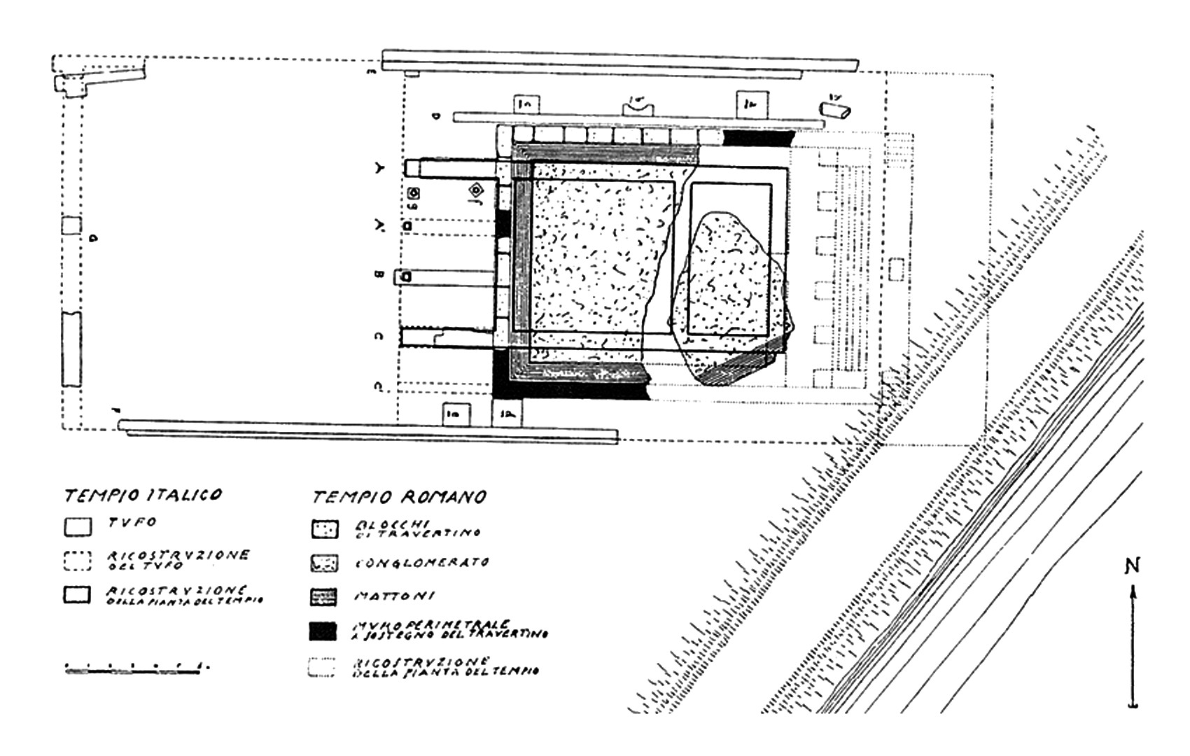 Sanctuary of Marica near Minturnae